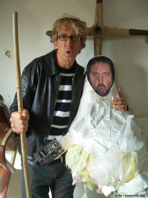 Andy Dick holding a pinata with a cutout of Tom Green's face on it.